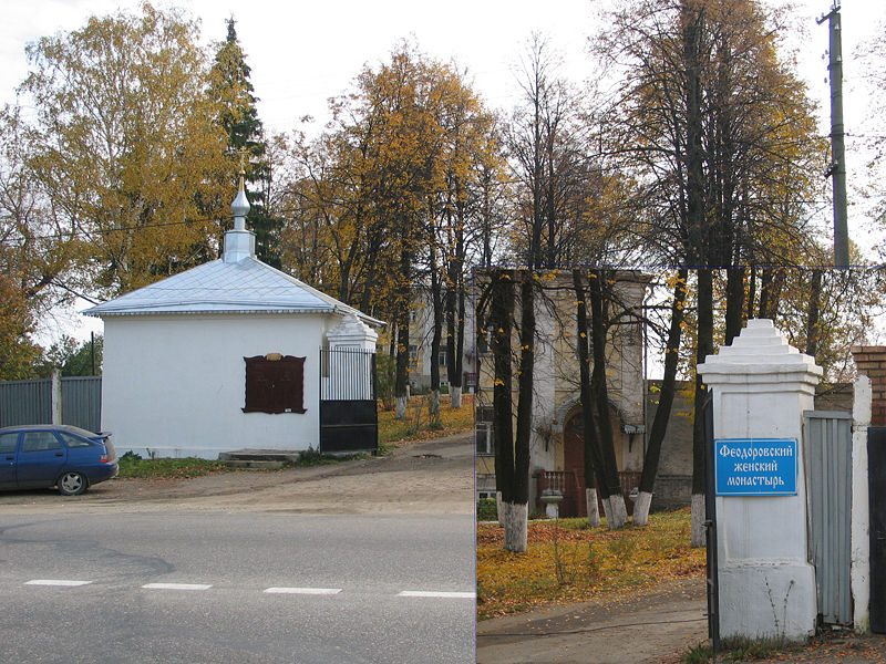 Fedorovsky Monastery in Pereslavl-Zalessky. Gate